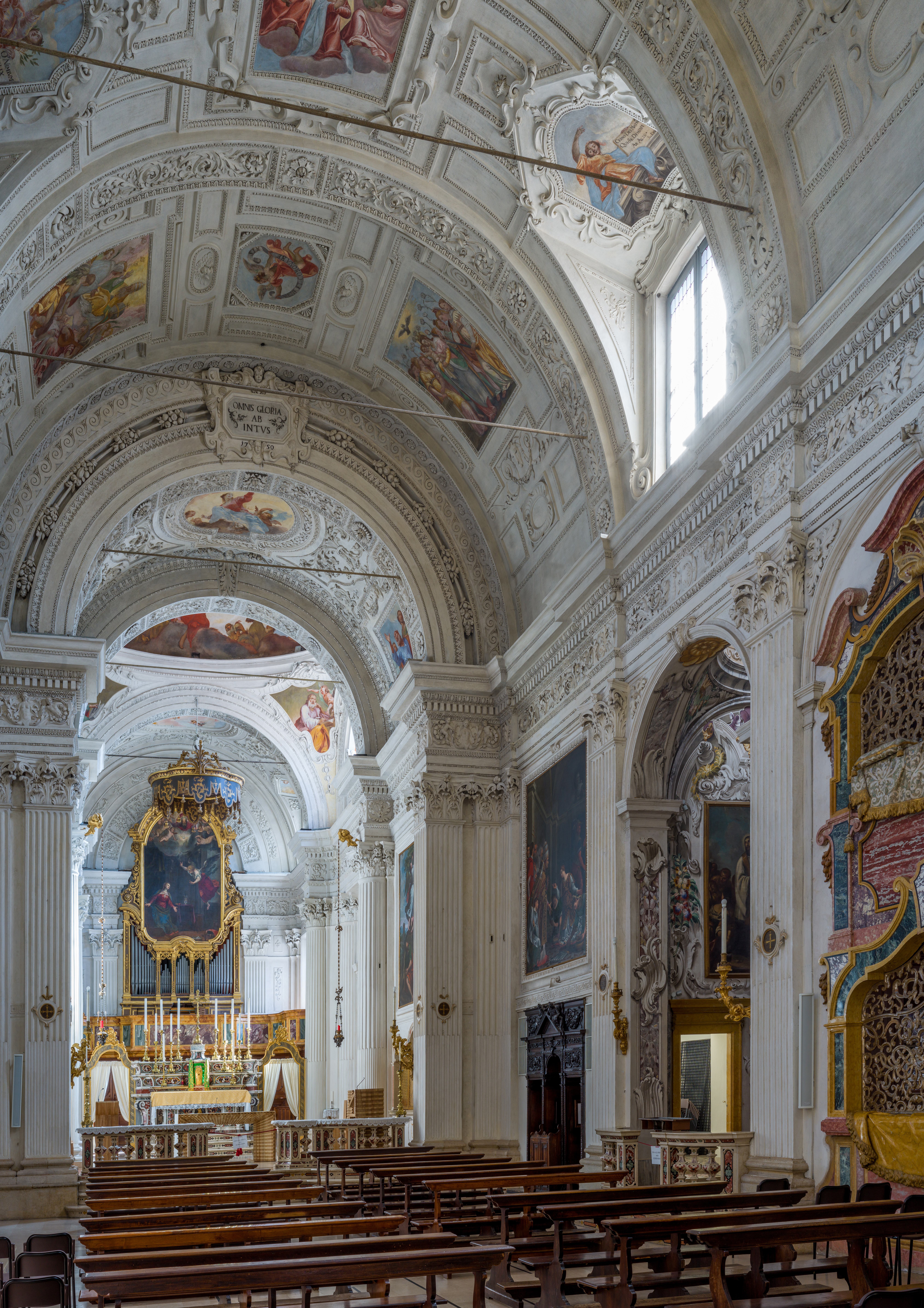 Interior of theChiesa di San Gaetano church in Brescia.